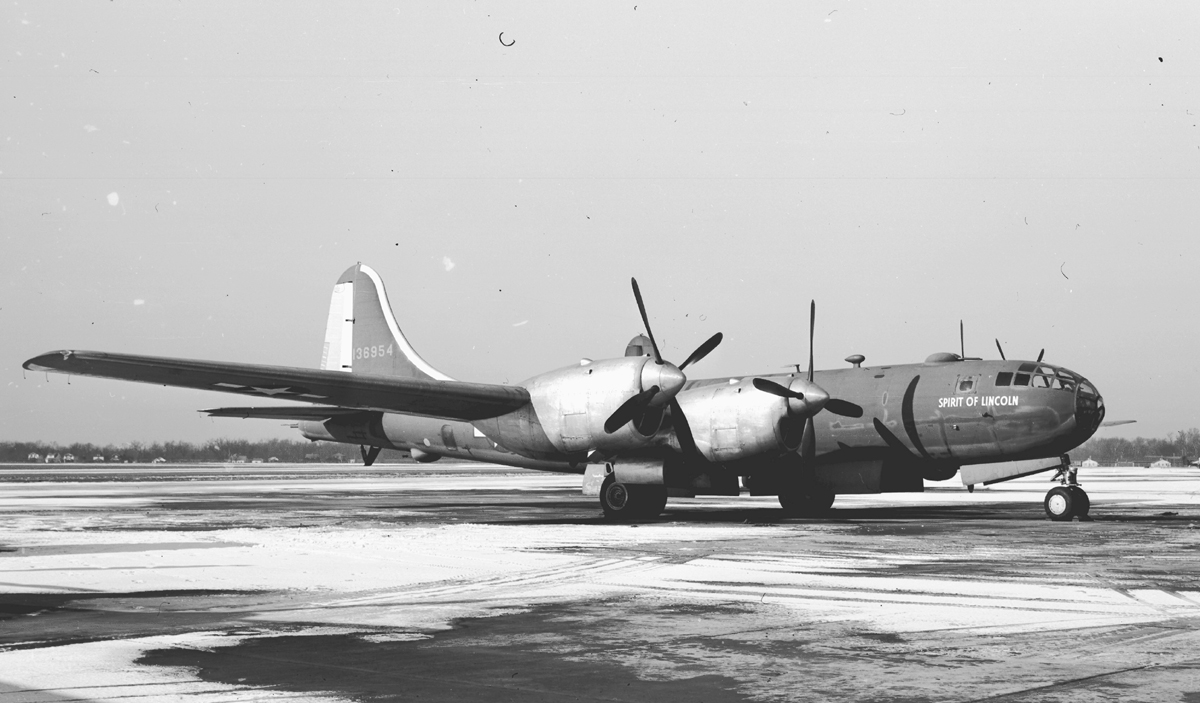 Wright Field, January 1946. General Motors modified B-29 to use Allison V-3420 engines.